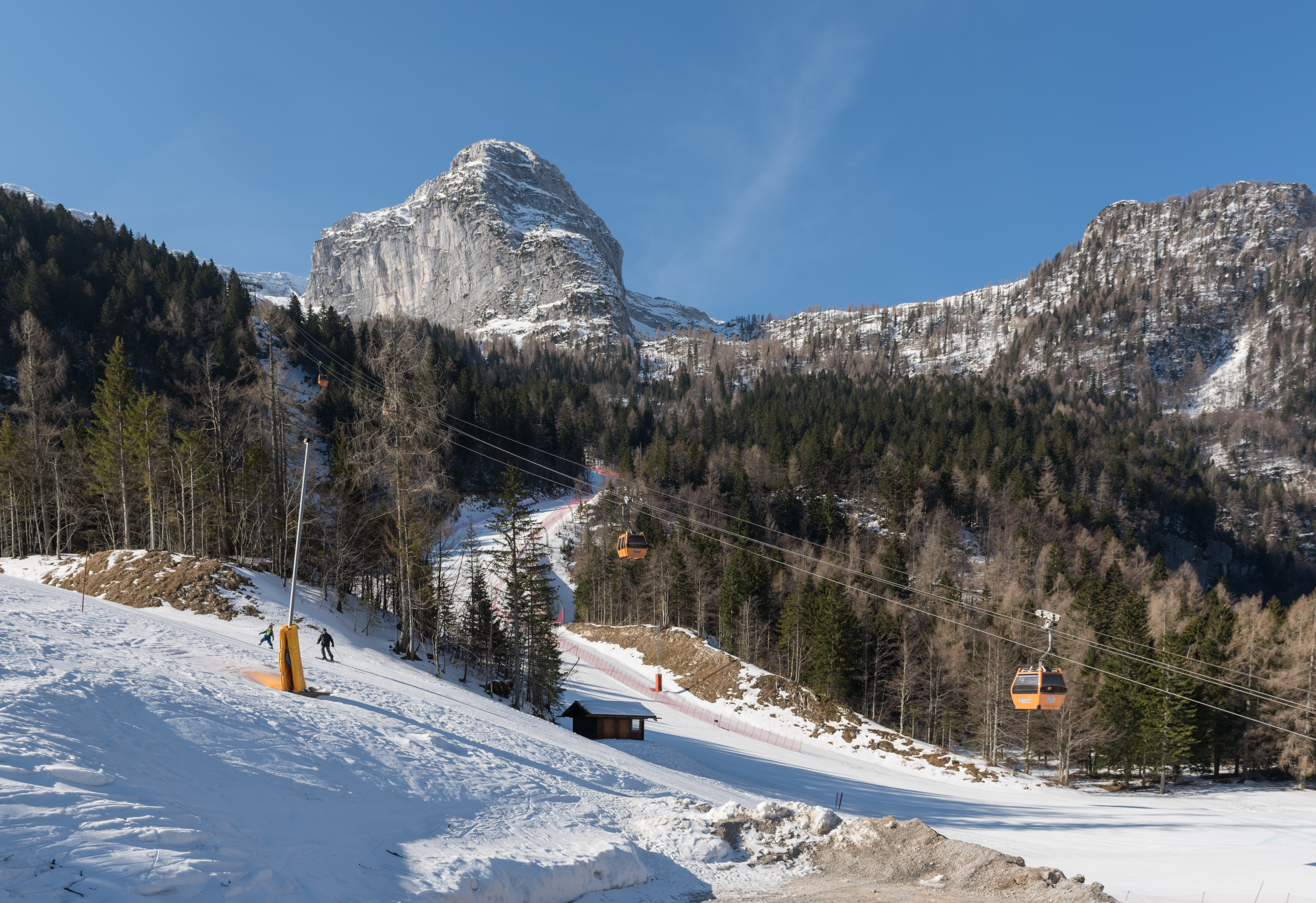 Monte Canin, Sella Nevea, Valle Rio del Lago, municipality Tarvisio, region Friuli-Venezia Giulia, Italy, EU